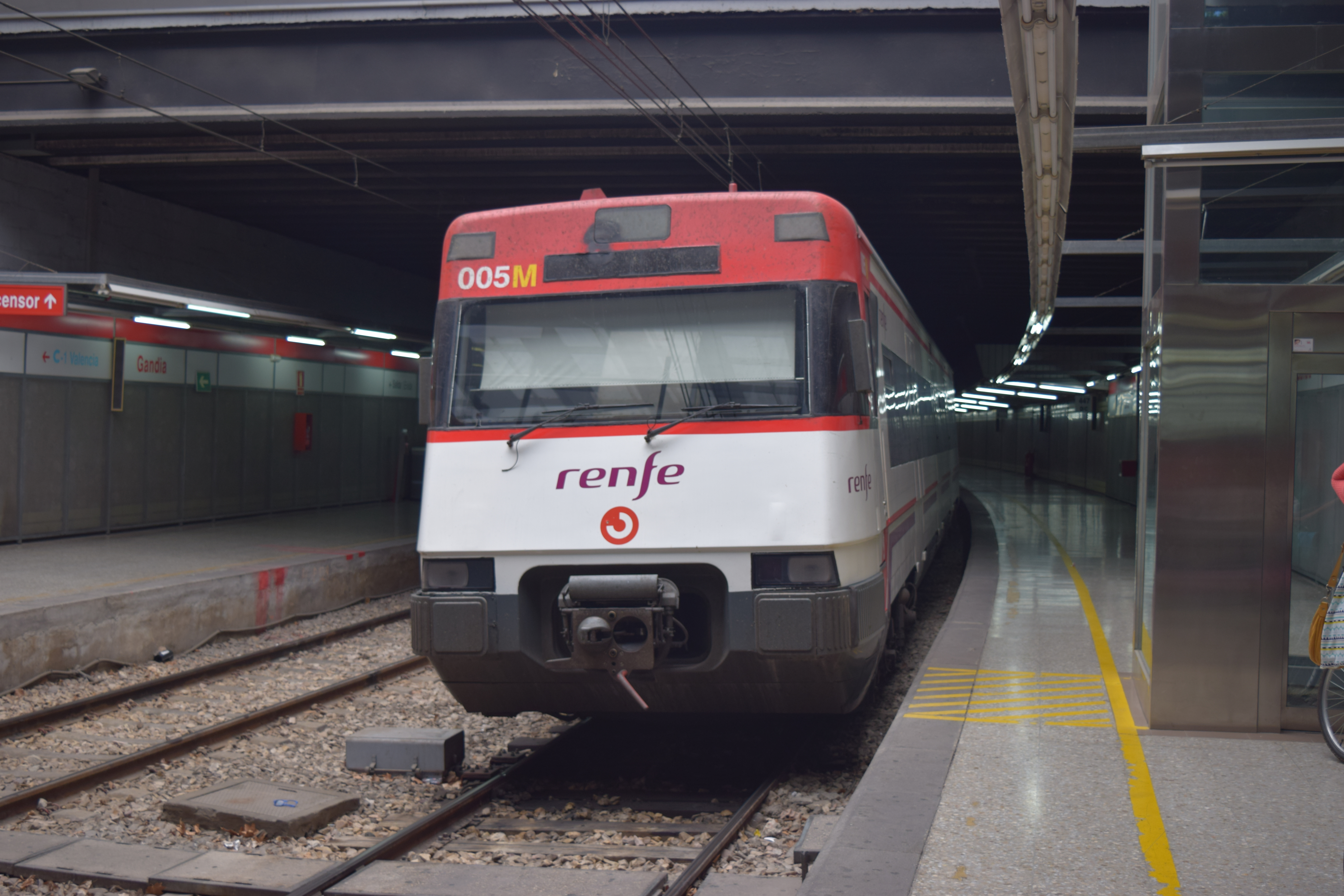 RENFE Class 447 at Gandía, about to depart for Valencia Nord.